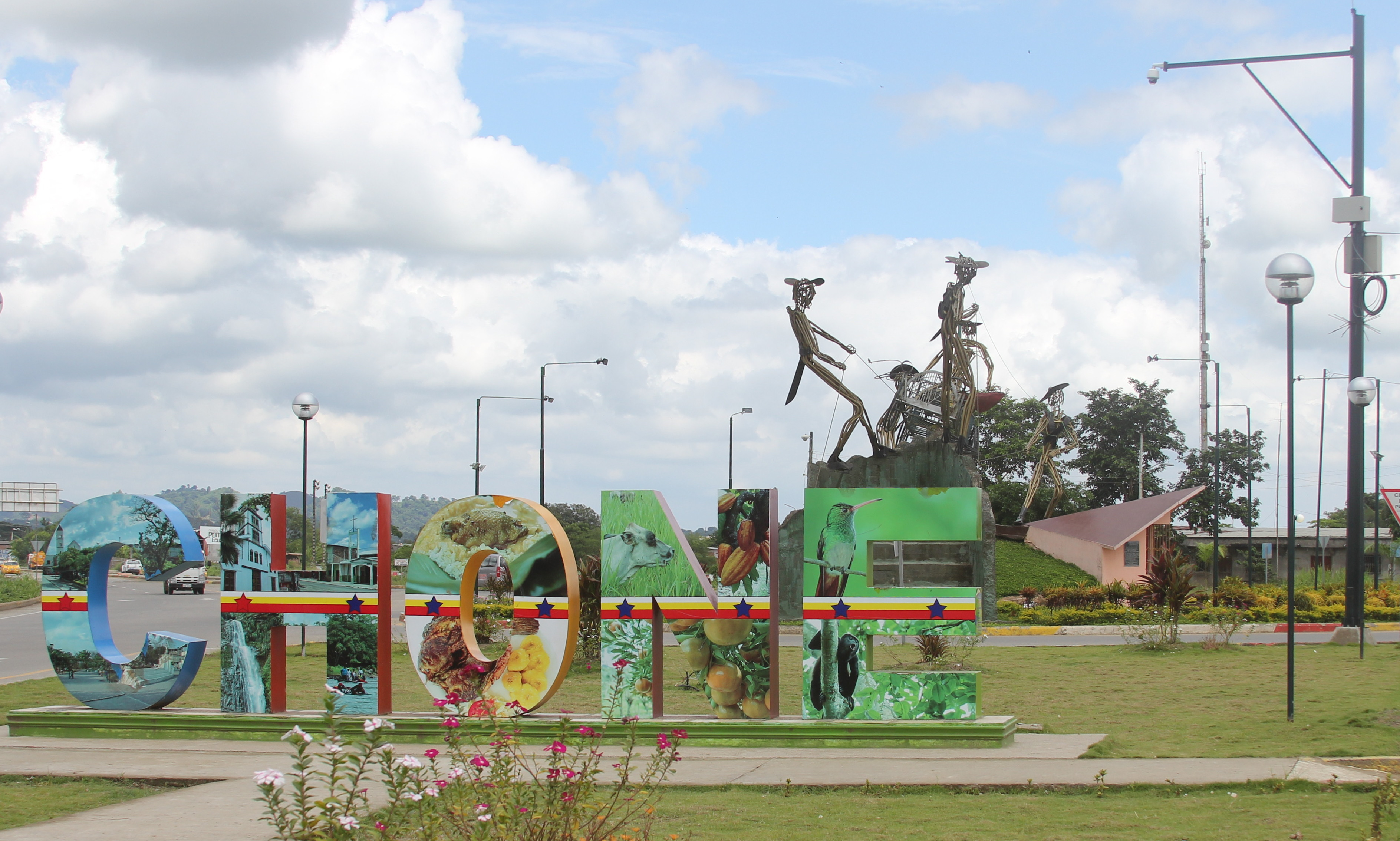 TOUR SOLIDARIO - MANABÍ 082